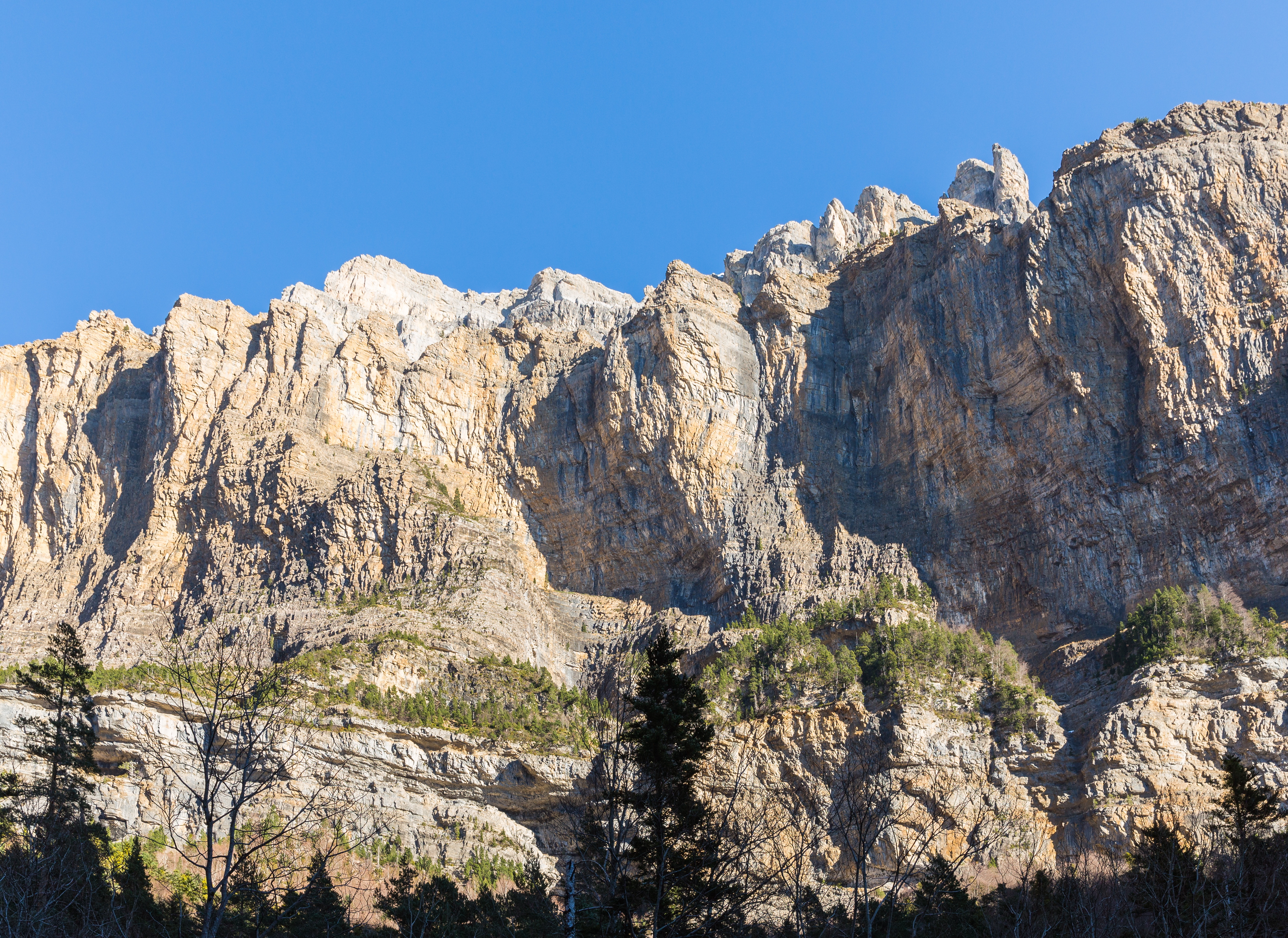 Ordesa y Monte Perdido National Park, Huesca, Spain